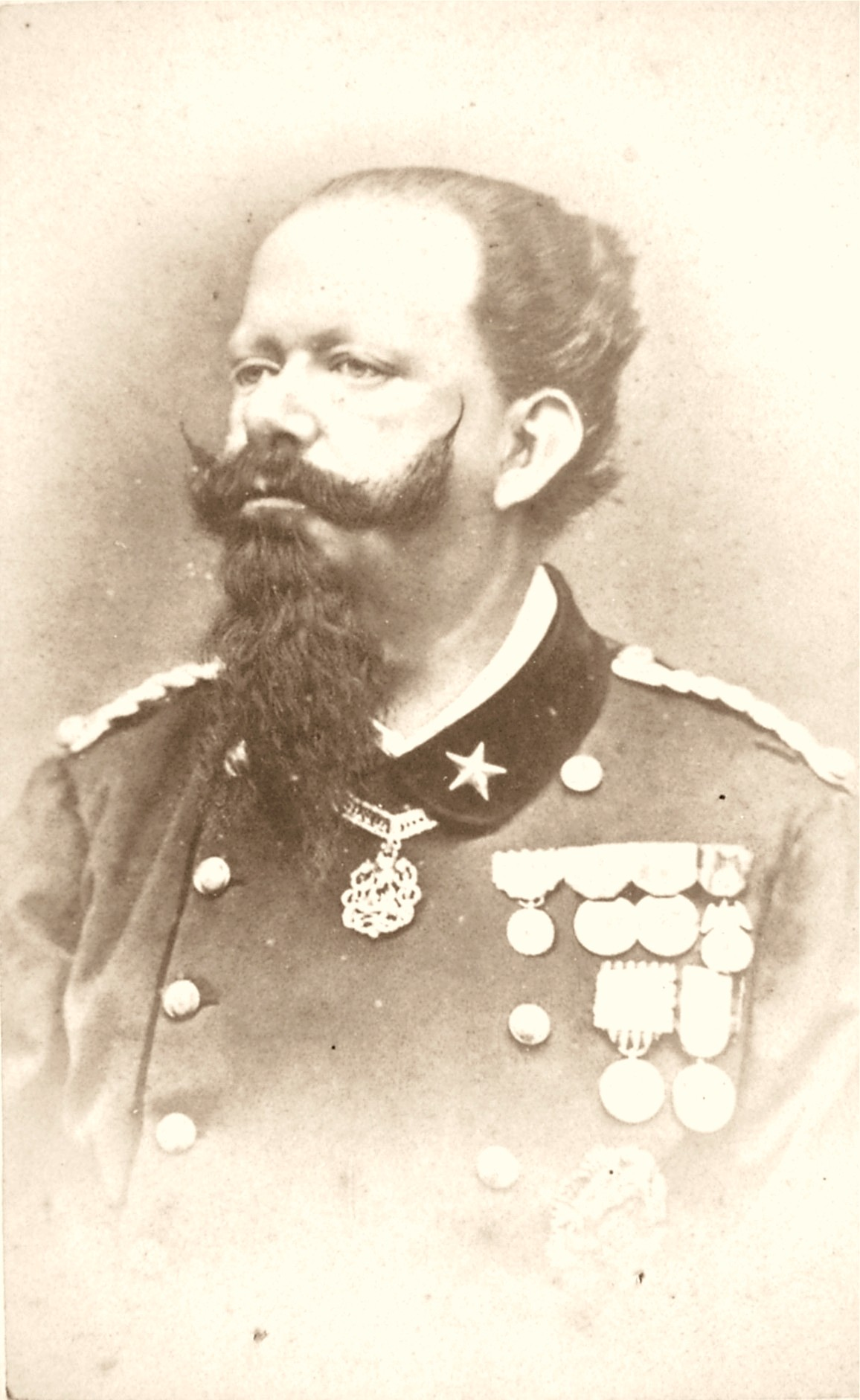 Victor Emmanuel II of Italy